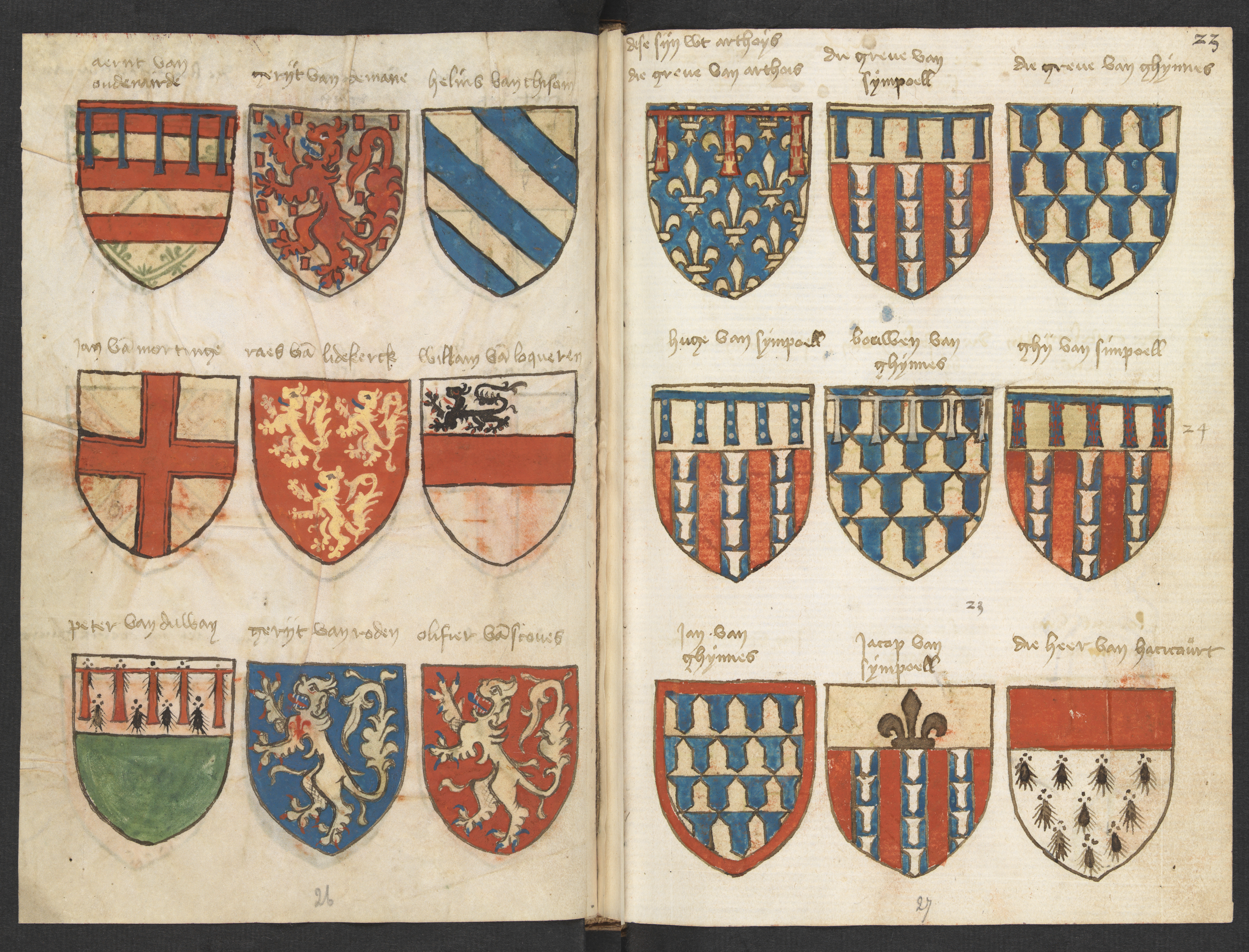 Lefthand side folio 022v; righthand side folio 023r from the Beyeren armorial / Wapenboek Beyeren